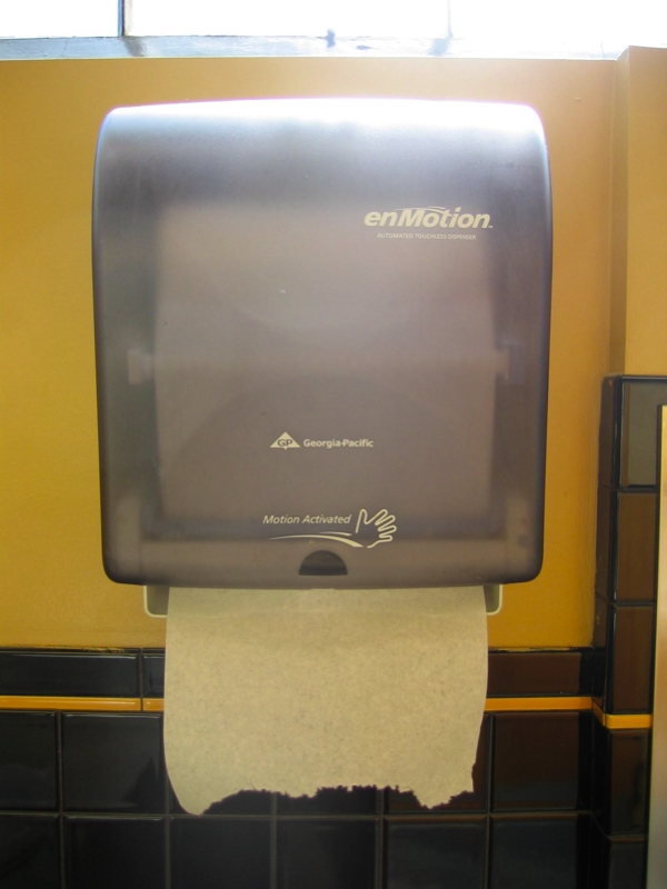 Wave hand and tear paper towel dispenser: "from the FUTURE: wave hand (repeatedly, frustratedly) in front of sensor, and paper pours out. Then grab and tear"